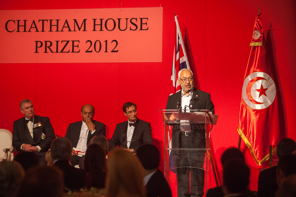 Speech of Rached Ghannouchi after receiving the Chatham House award 2012